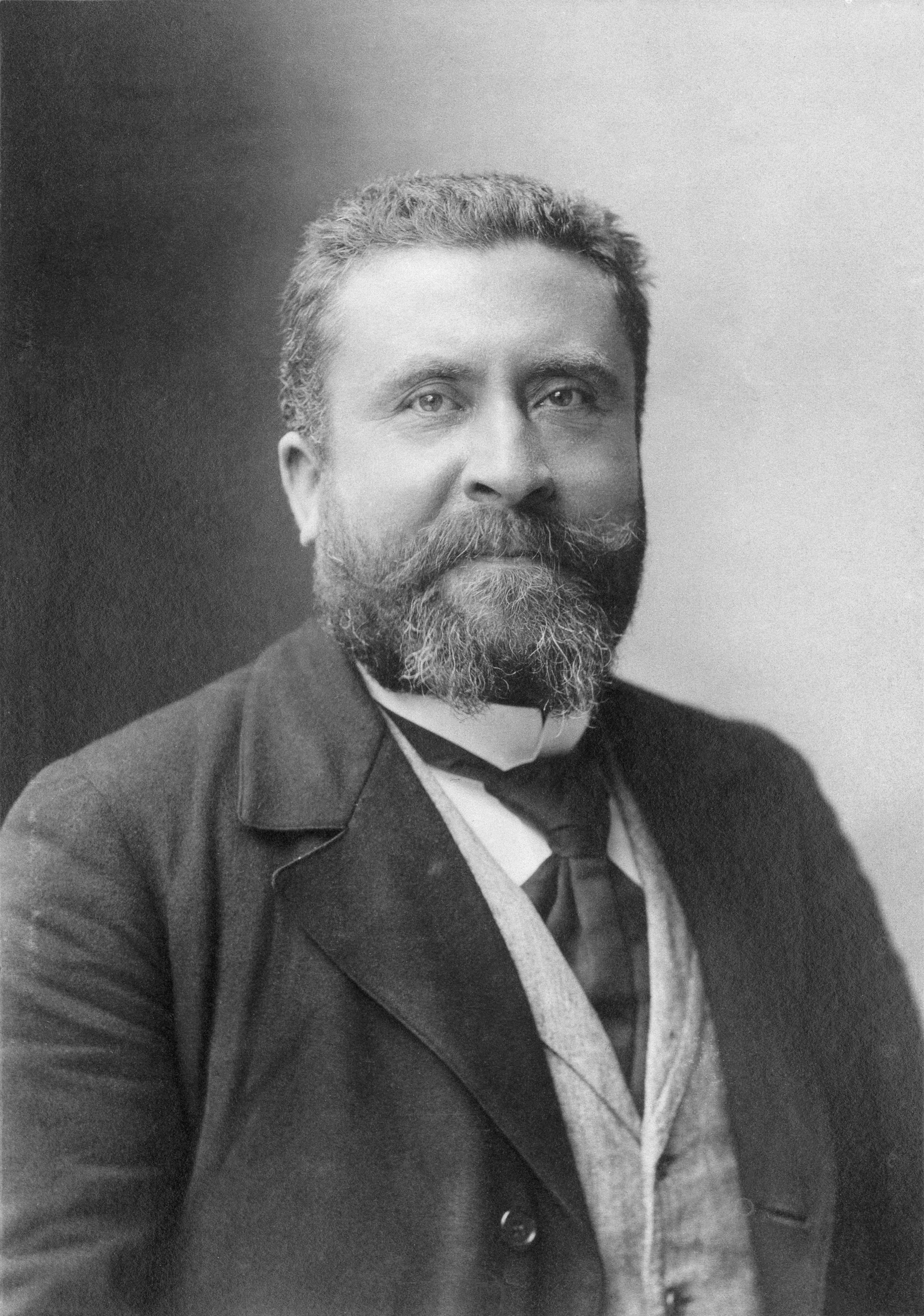 Jean Jaurès, 1904, by Nadar.